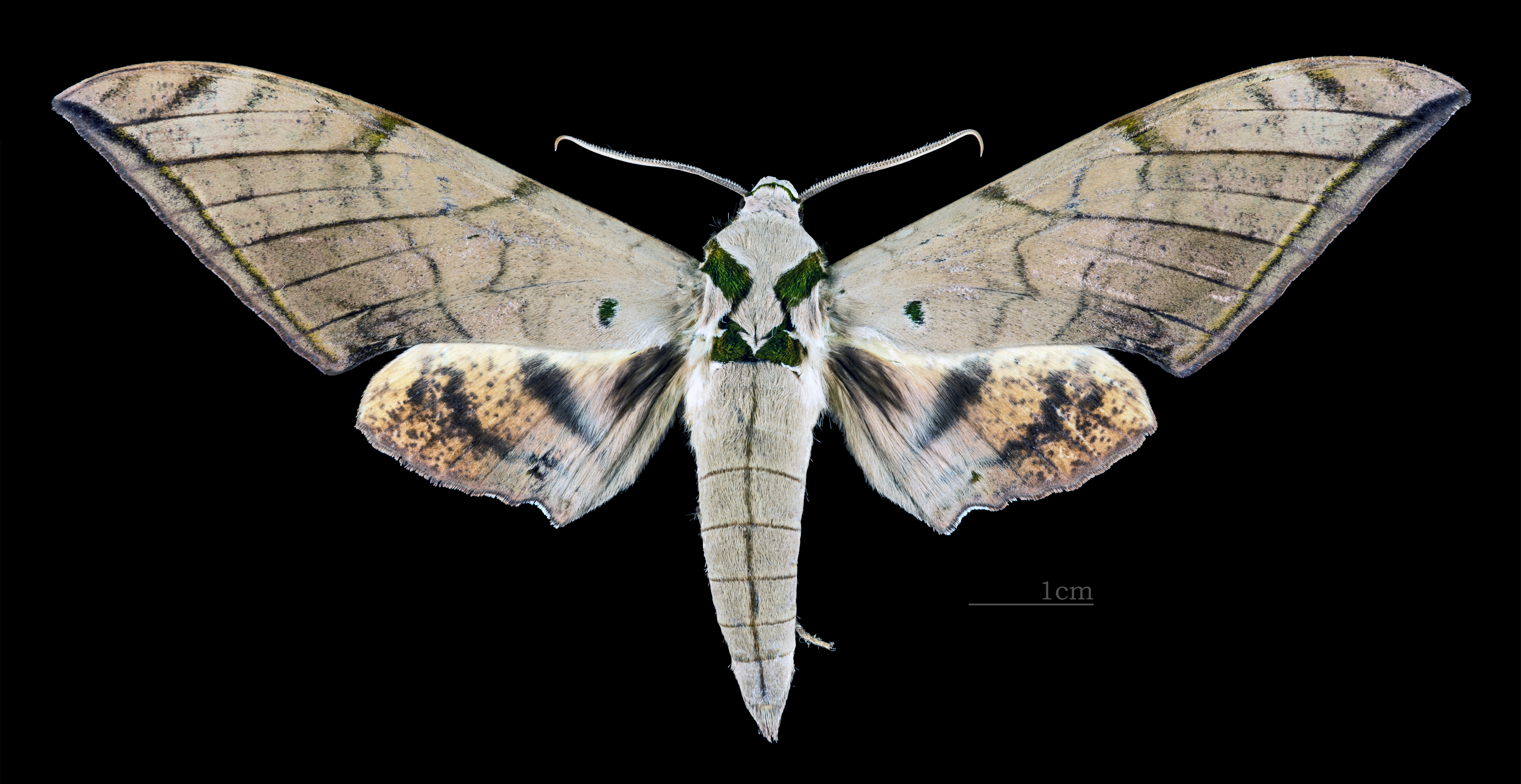 Ambulyx clavata - Dorsal side Collection of the Mathematician Laurent Schwartz